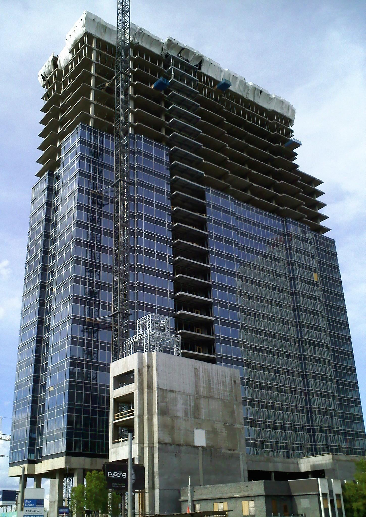 Southwest side of EPCOR Tower, Edmonton, from 101 Street & 104 Avenue.